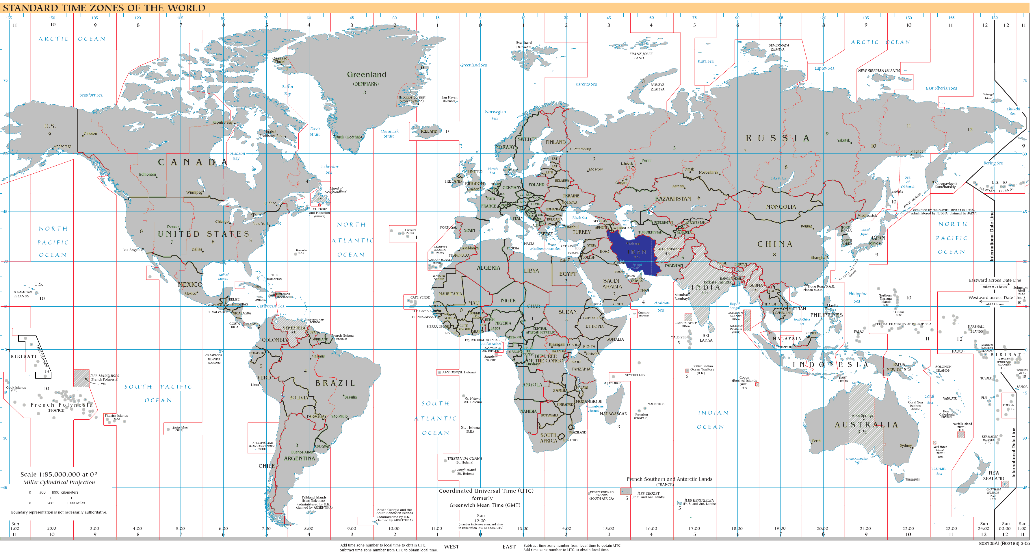 World map of time zones as of June 2008.